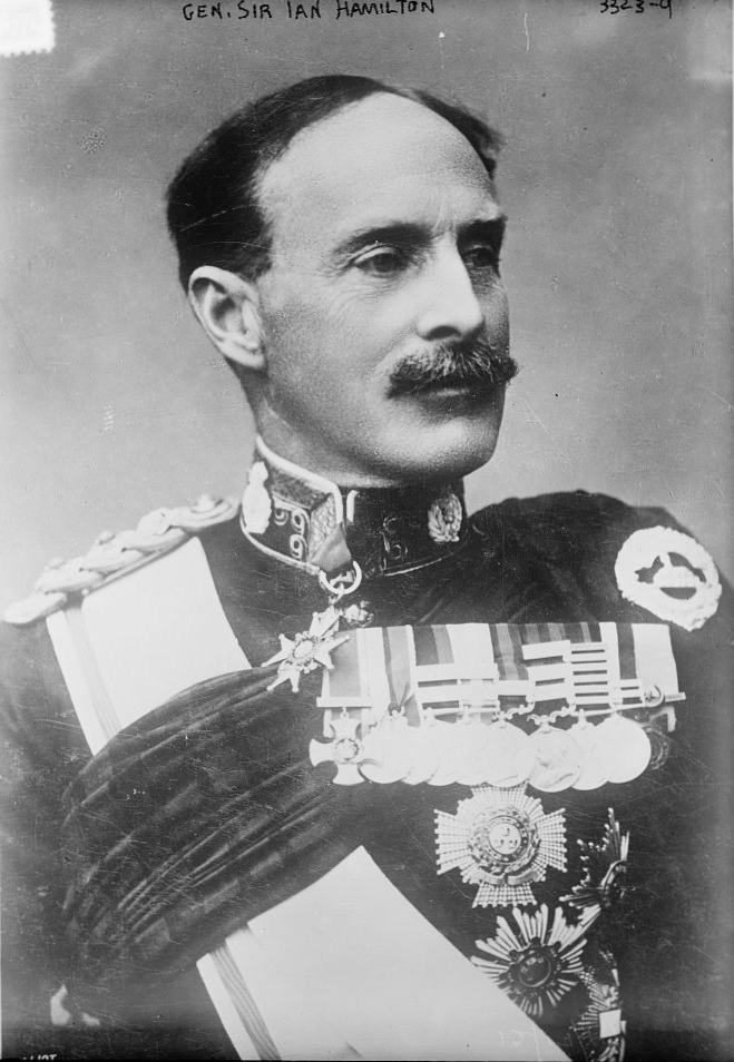 Photograph shows Gen. Sir Ian Hamilton Sir Ian Hamilton